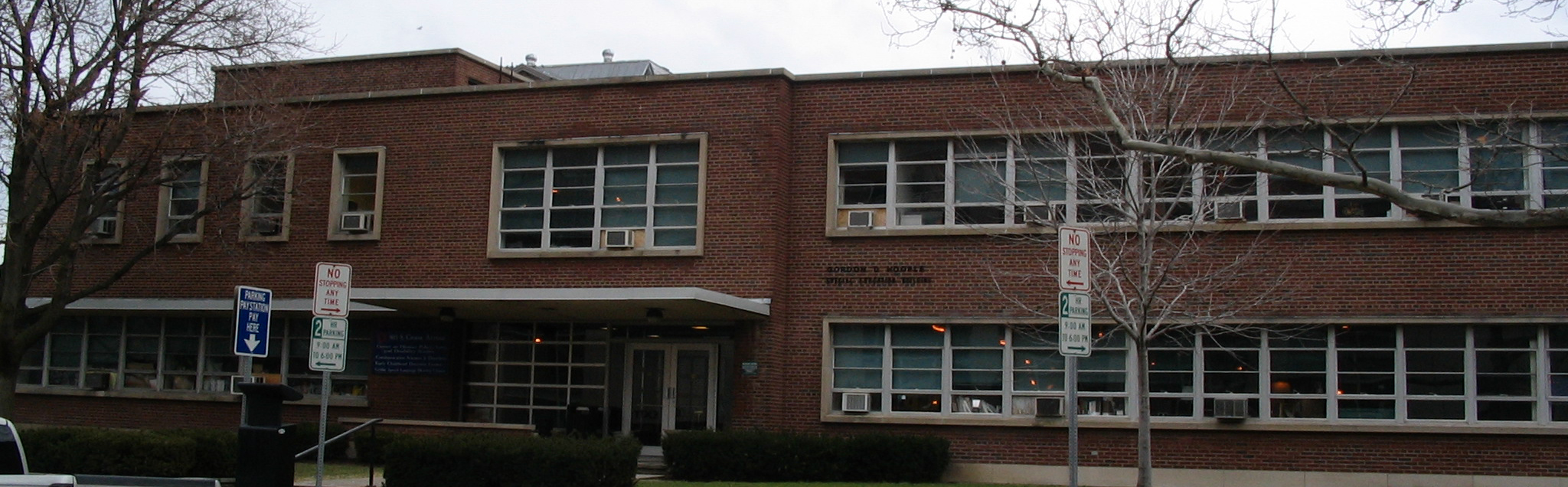 This is an image of the Hoople Special Education Building, Syracuse University that I took with my digital camera. This building is located on Syracuse University.